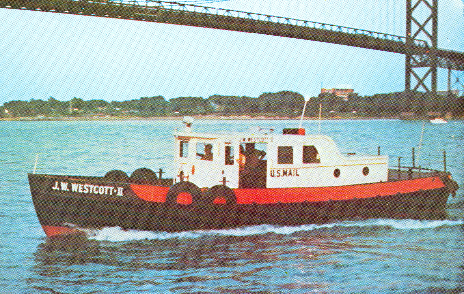 J W Westcott II mailboat